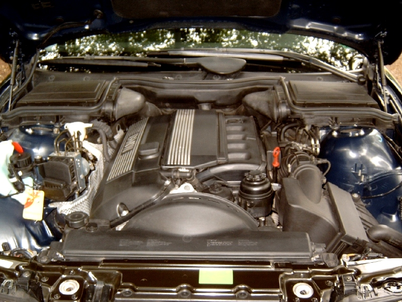 M52TUB20